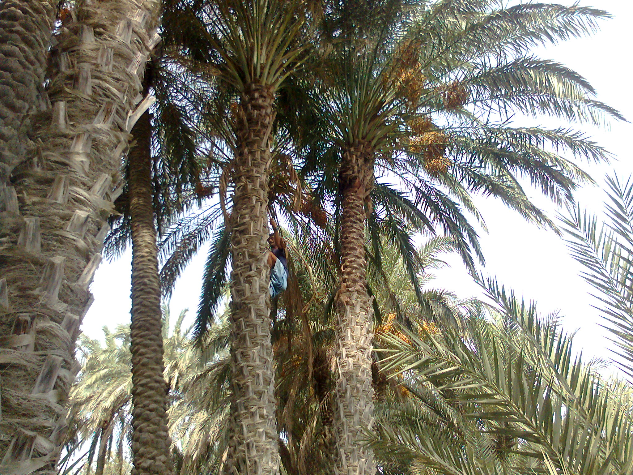 a man collecting dates